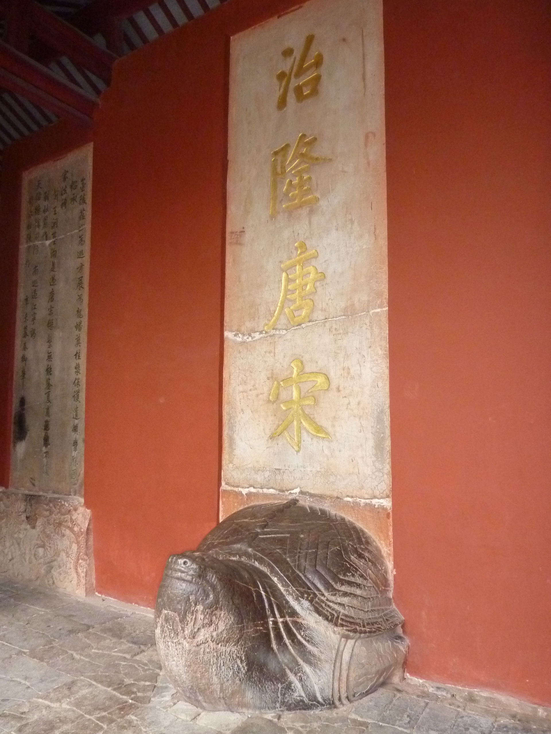 The Tablet Hall in the Ming Xiaoling complex. It houses a turtle-based stele erected by the Qing Dynasty's Kangxi Emperor in honor of the Ming Dynasty's founder the Hongwu Emperor. Side tablets contain exegetic text, written by the Kangxi emperor's sons.